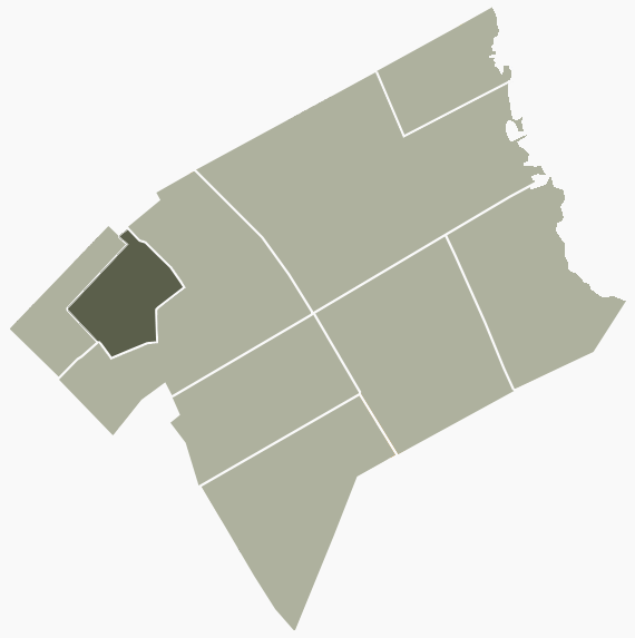 Map of the Vicente López's neighborhood, Carapachay.